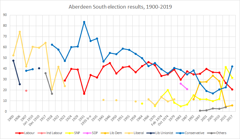 Aberdeen South election results